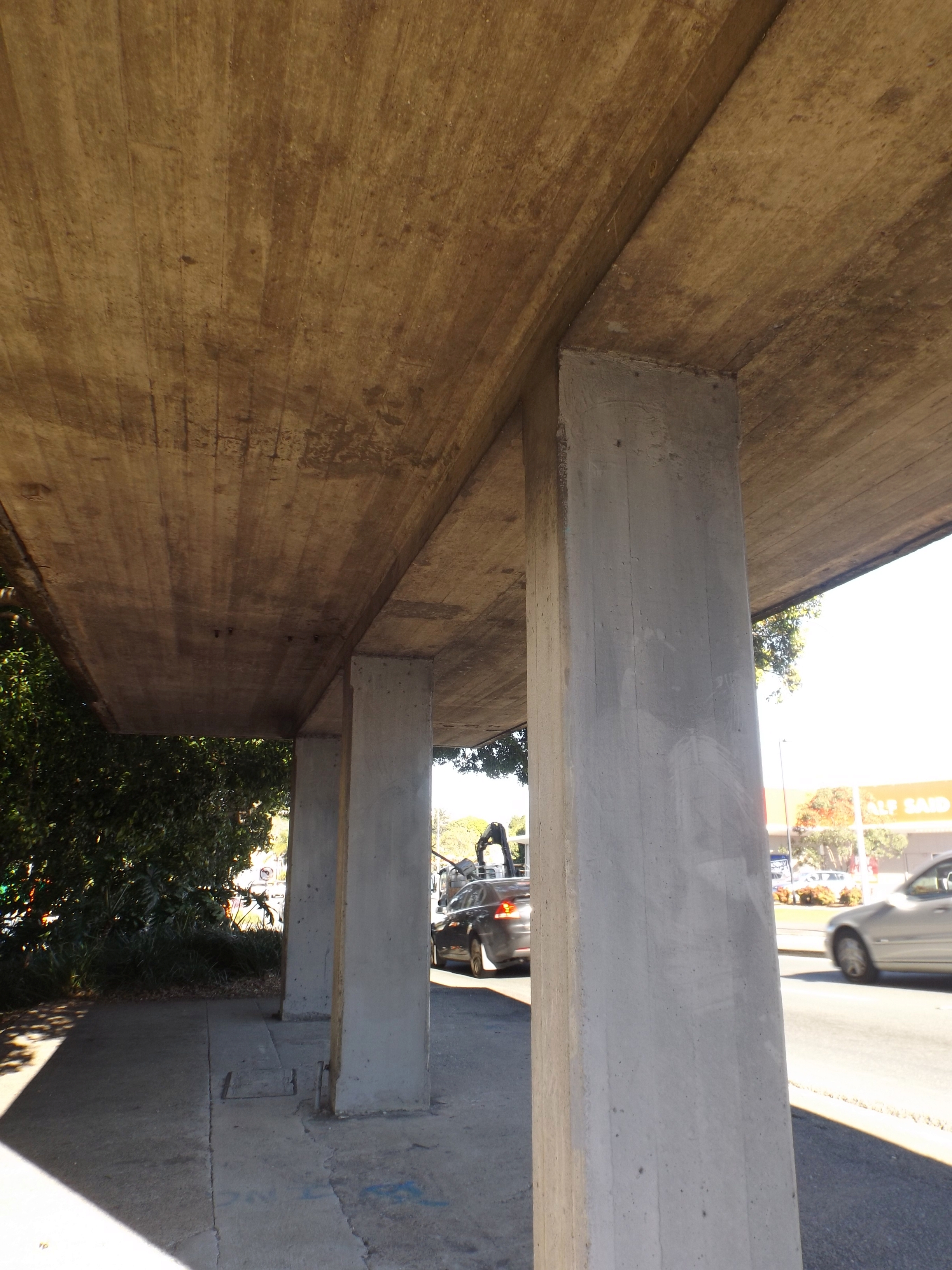 Photo of the roof of the Windsor Air Raid Shelter along Lutwyche Road at Lutwyche, Brisbane, Queensland, Australia.